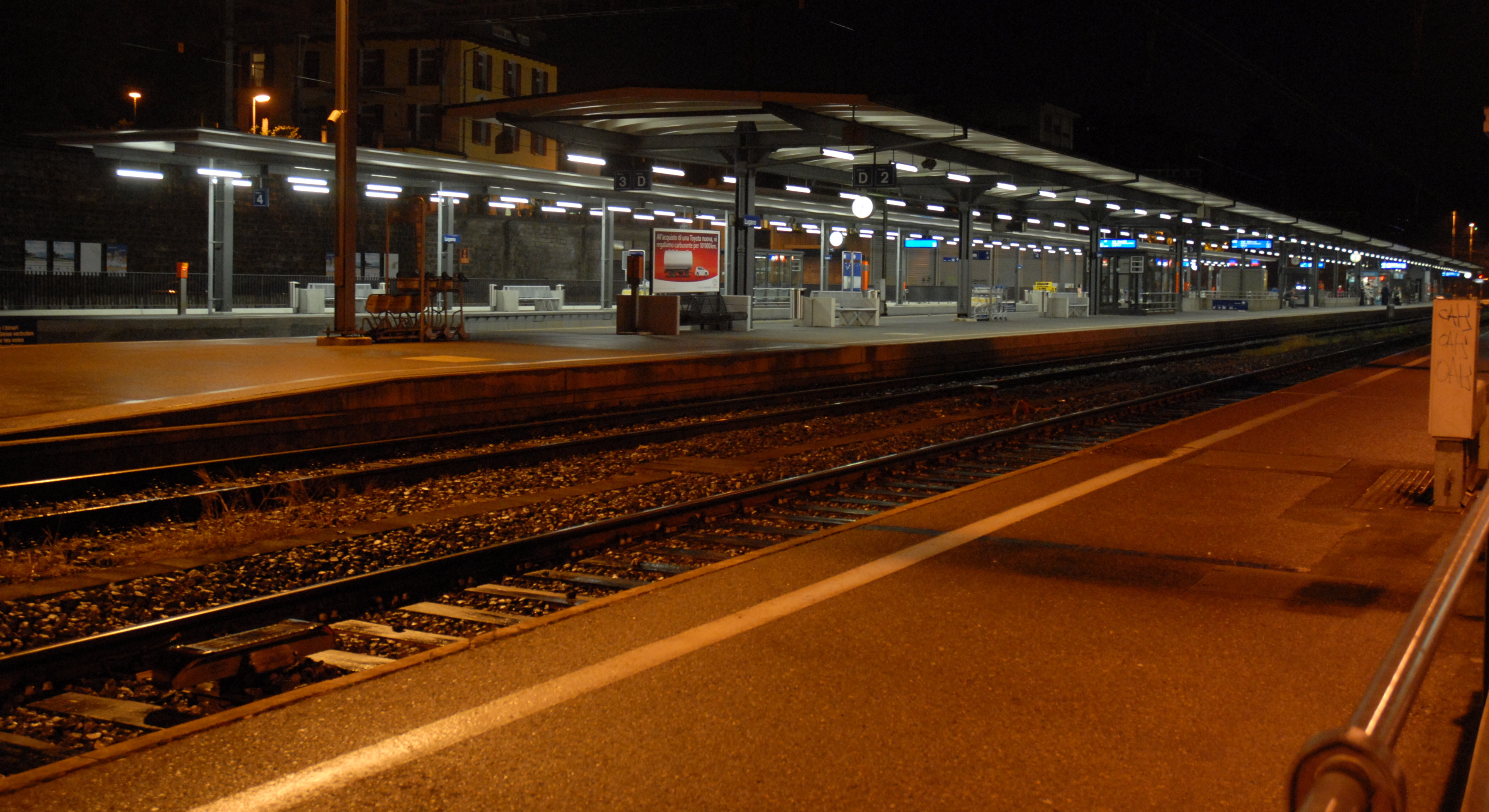 Lugano railway station by night. For more information see wikipedia article Lugano railway station.